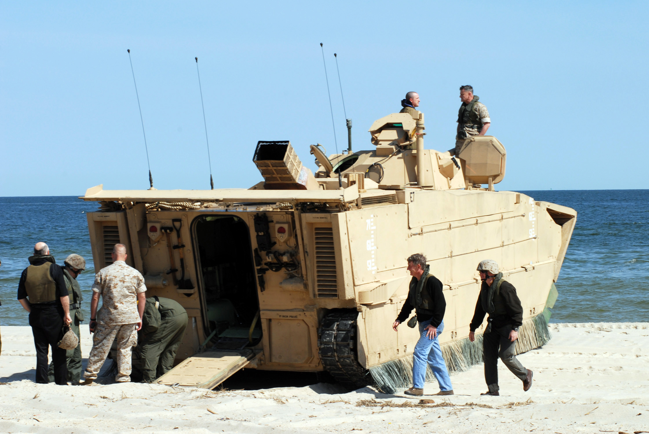 VIRGINIA BEACH, Va. (May 1, 2007) - Department of Defense personnel and Marines tour an Expeditionary Assault Vehicle (EFV) during a capabilities exercise at Naval Amphibious Base Little Creek. The exercise showcased the capabilities of the new EFV, a concept vehicle designed to replace the amphibious assault vehicle (AAV) currently used by Marine forces. U.S. Navy photo by Mass Communication Specialist Seaman Mandy McLaurin (RELEASED)